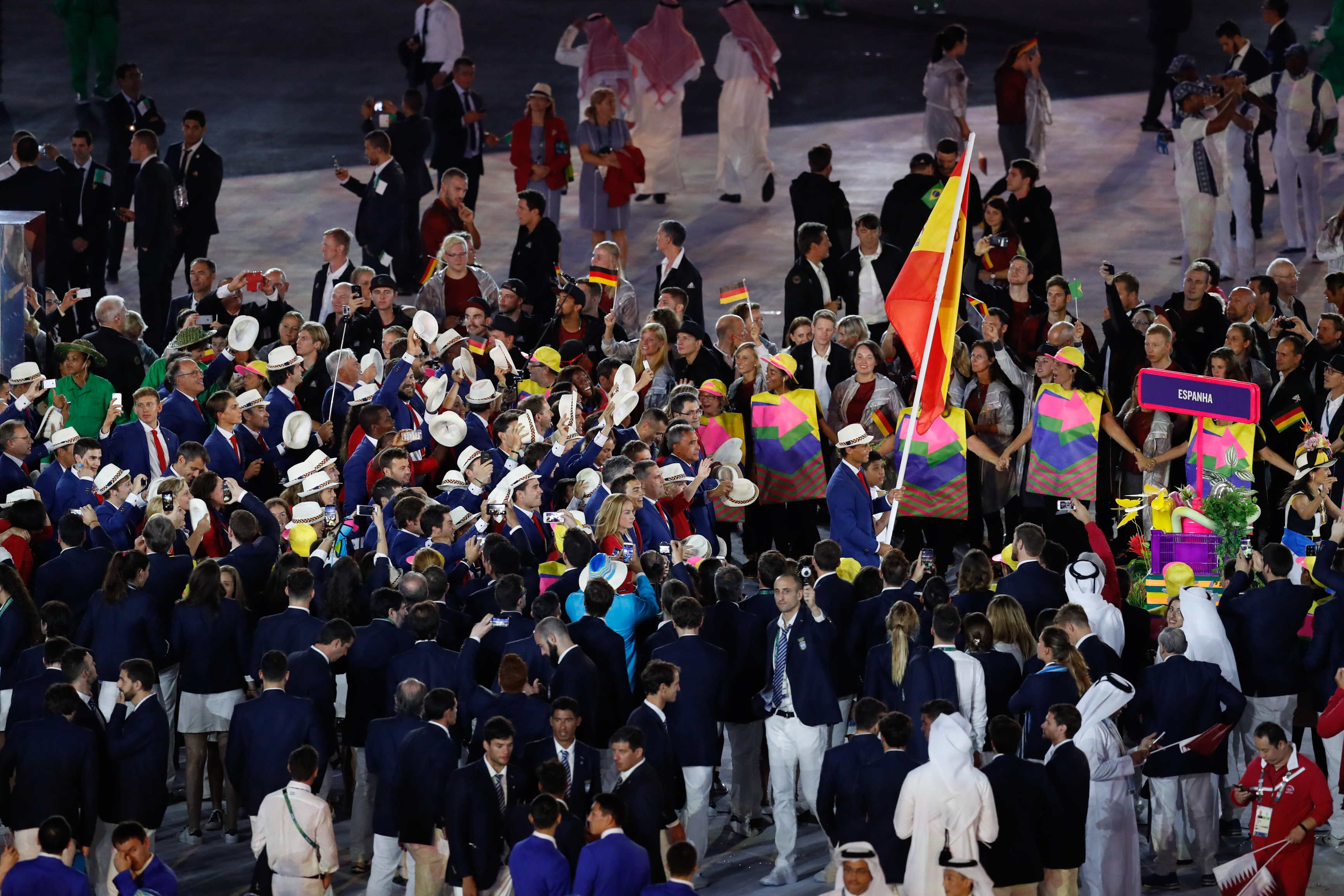 Rio de Janeiro - Cerimônia de abertura dos Jogos Olímpicos Rio 2016 no Estádio do Maracanã. (Fernando Frazão/Agência Brasil)